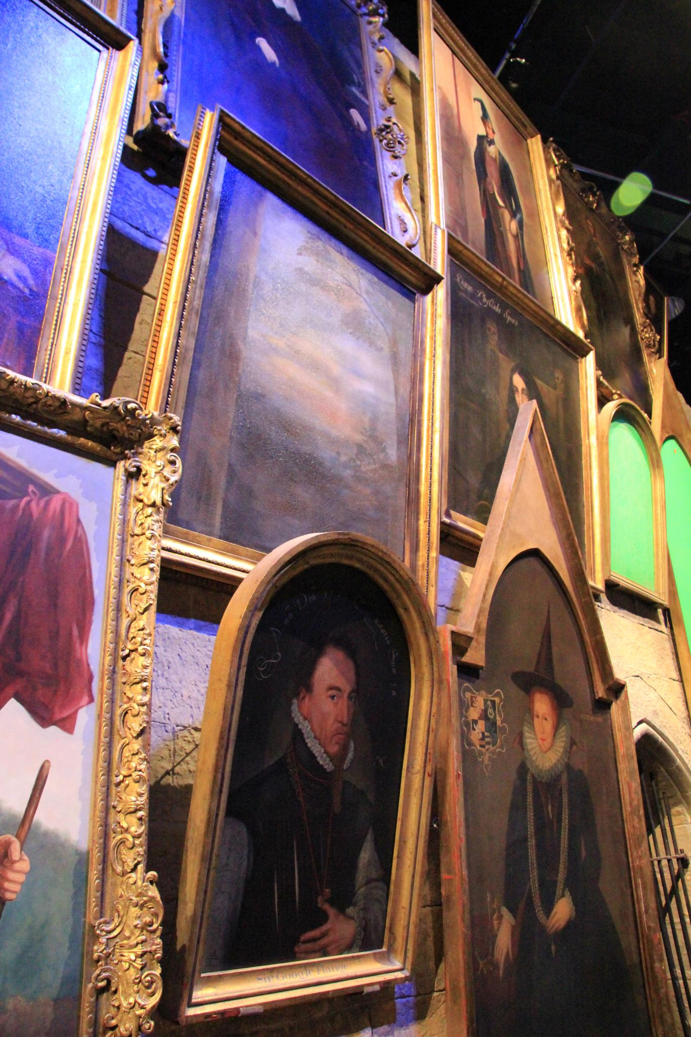 Warner Bros. Studio Tour London: The Making of Harry Potter.